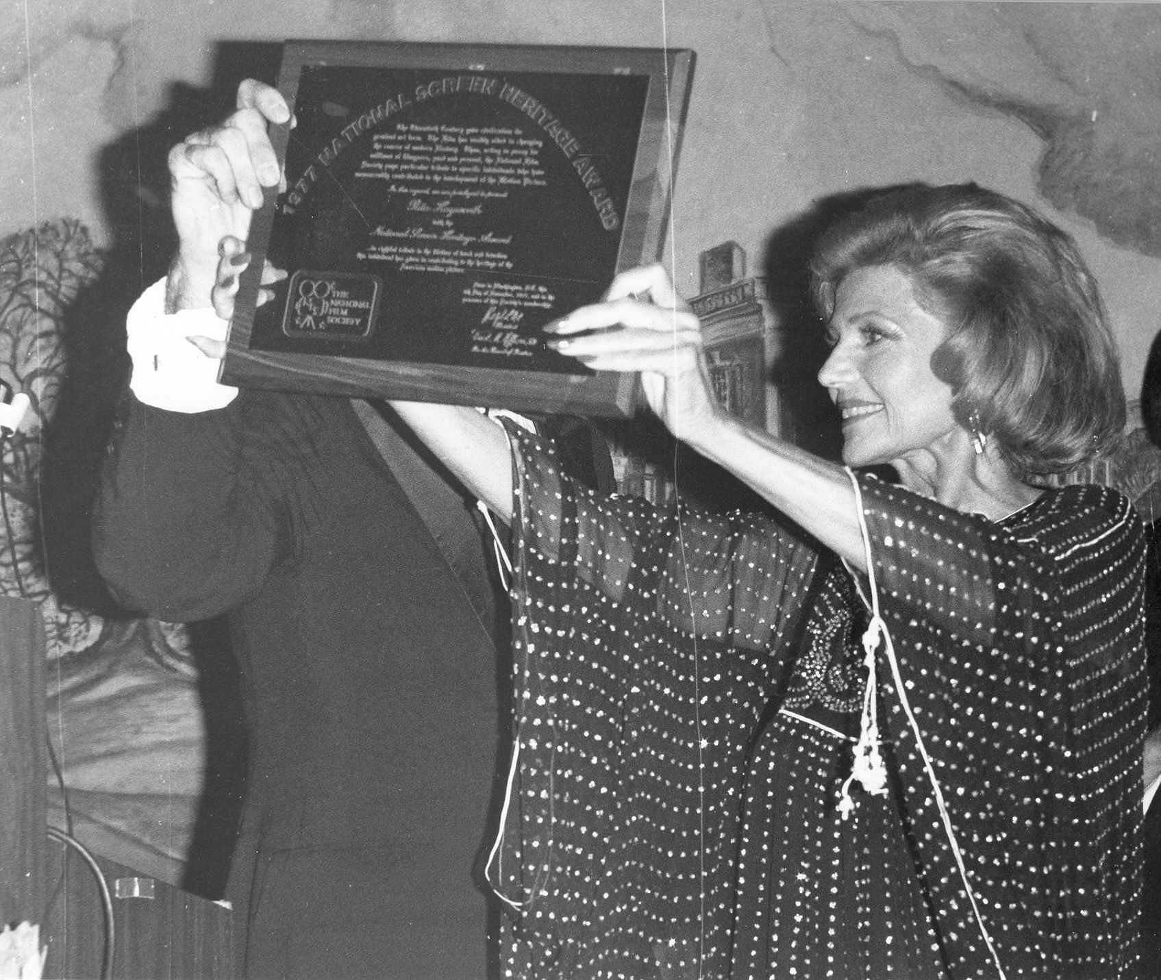 Rita Hayworth in 1977 at a National Film Society convention in Washington D.C. with her National Screen Heritage Award